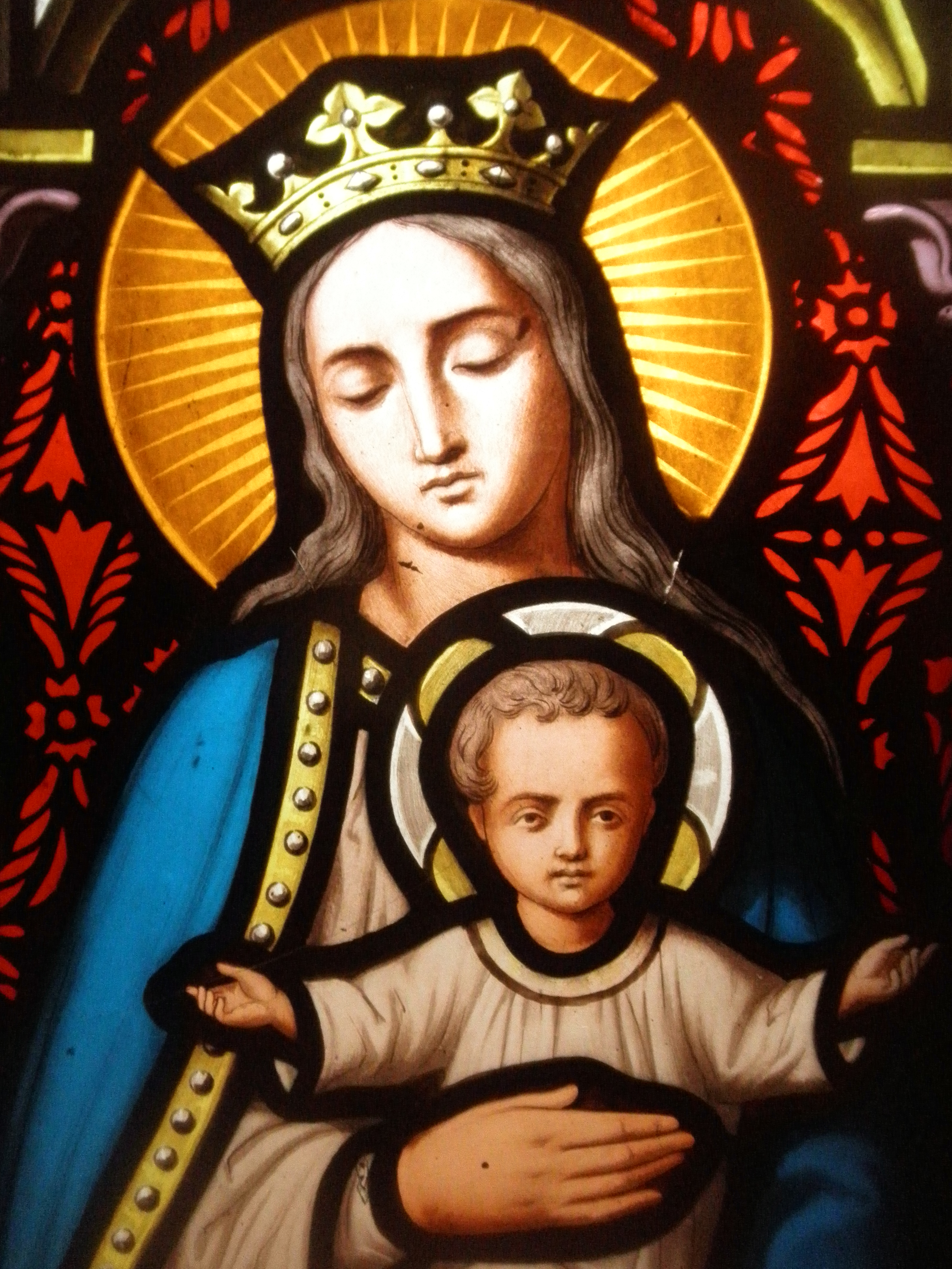 vitrail 1861